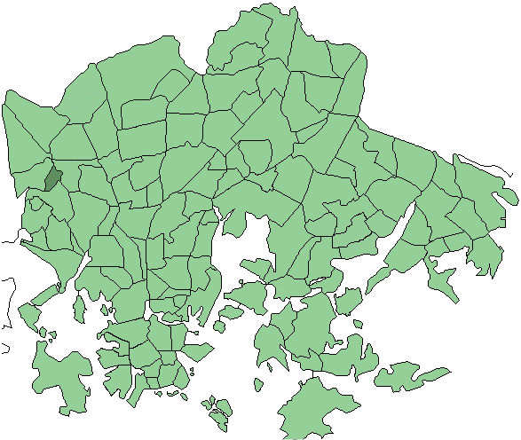 Districts of Helsinki, Marttila highlighted (new version)